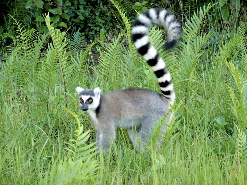 Lemur (maki) of madagascar. CharlesCantin's own work.